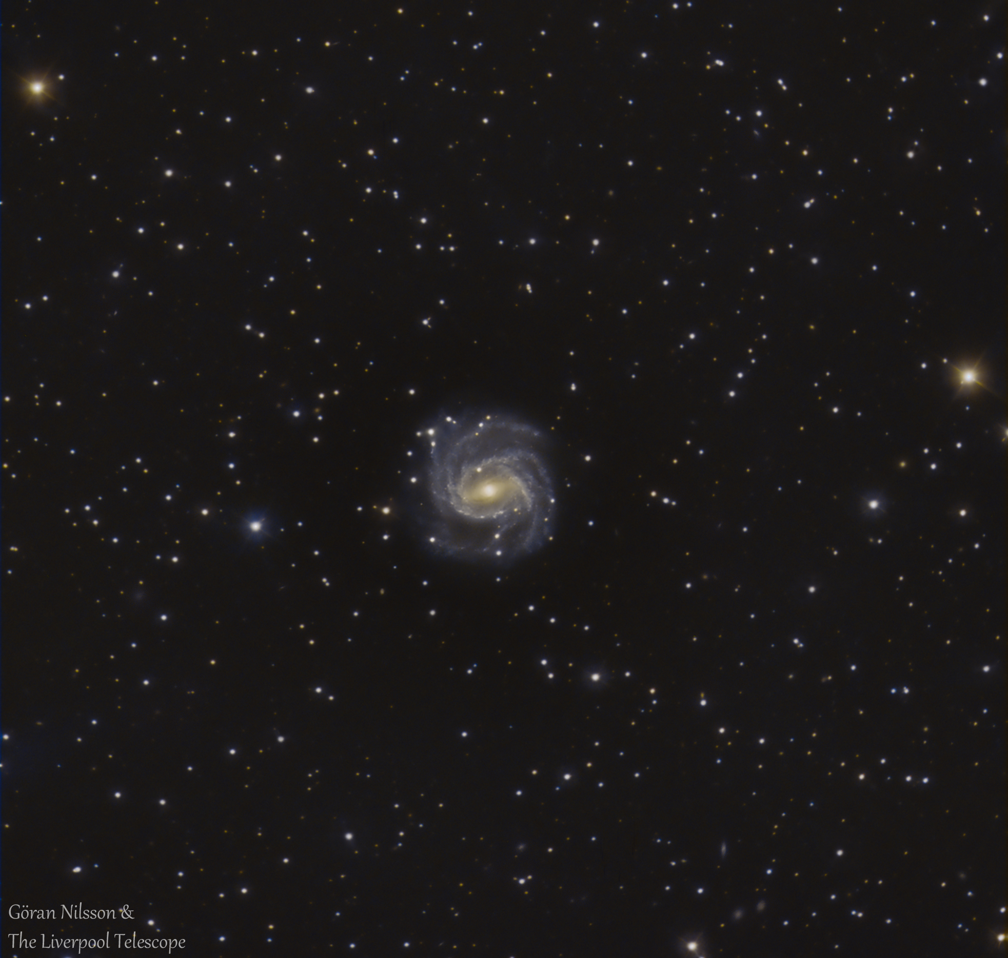 RGB image of the galaxy NGC 7080. Data from the Liverpool Telescope, a 2 m RC telescope on La Palma, processed by Göran Nilsson. 83 x 90s exposures totaling 2.1 hours